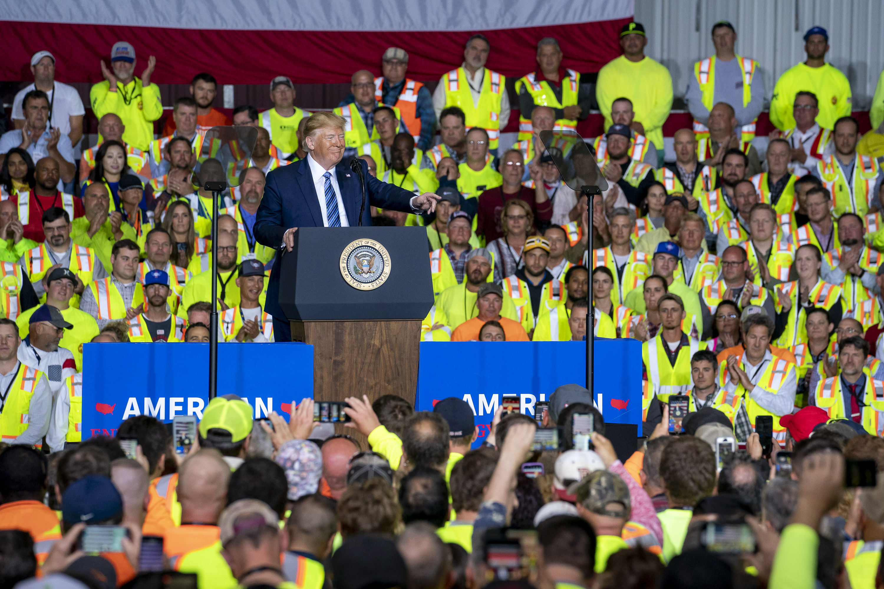 President Donald J. Trump delivers remarks on America’s Energy Dominance and Manufacturing Revival Tuesday, Aug. 13, 2019, at the Shell Pennsylvania Petrochemicals Complex in Monaca, Pa. (Official White House Photo by Tia Dufour)